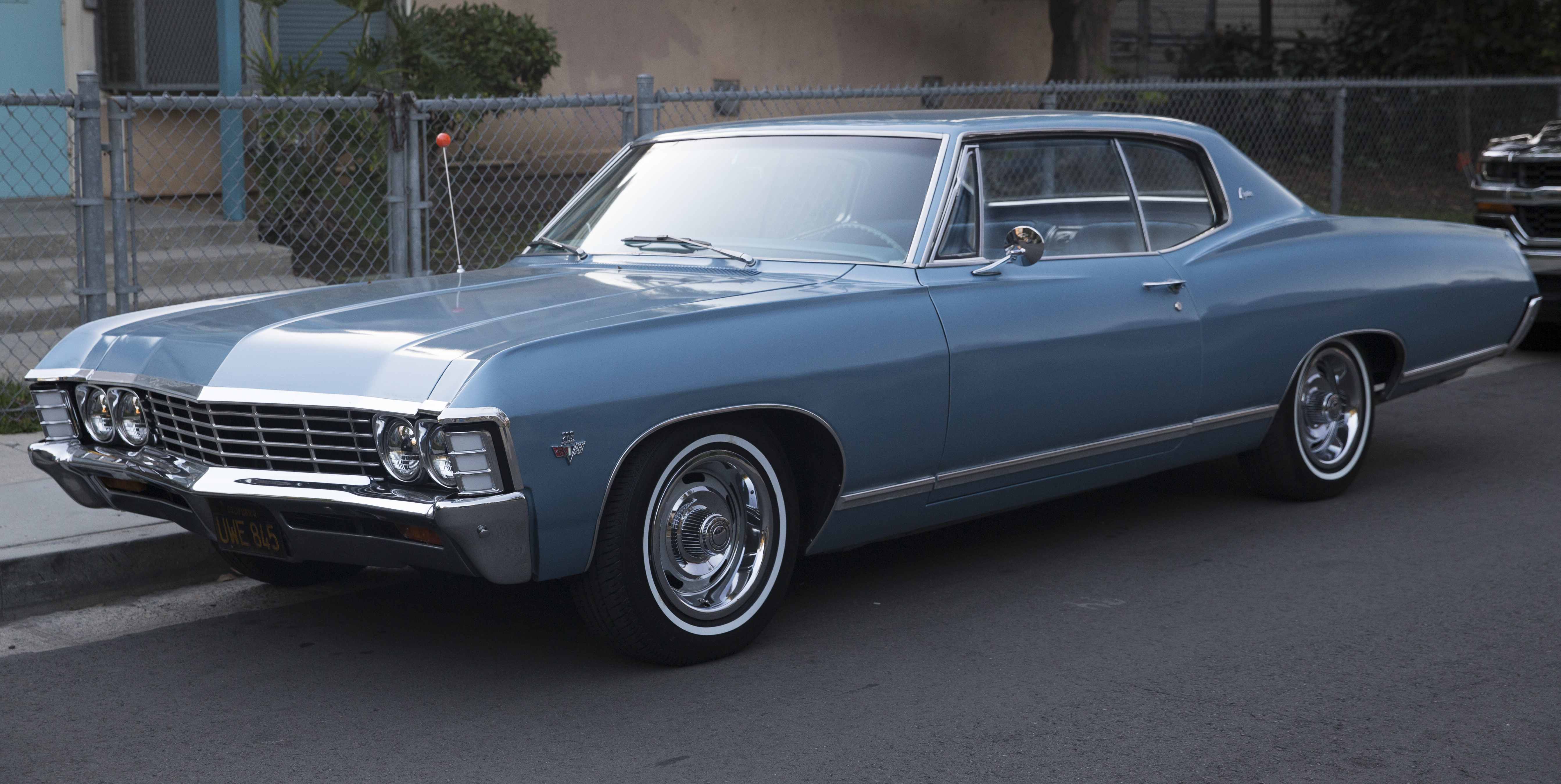 A 1967 Chevrolet Caprice coupé with the 283ci V8 engine in Los Angeles, CA.